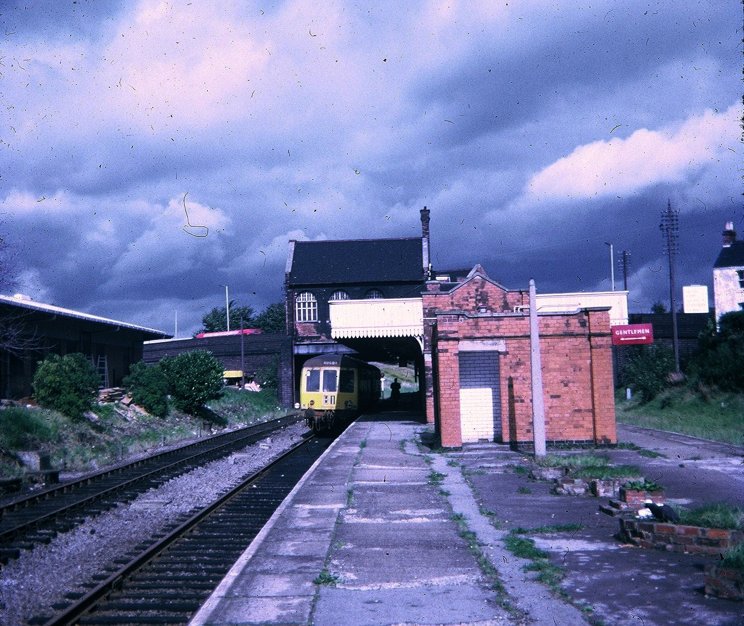 Taken in September, 1968, this diesel-multiple train is waiting to depart for Nottingham (Arkwright Street) Station on the truncated section of the former Great Central Railway. That section was closed on 3rd May, 1969. The postcode of Rugby (Central) Station is CV22 5AL. A former Midland Red single-decker bus can just be seen in Hillmorton Road to the left of the station.See also, an image taken from same position in 2020